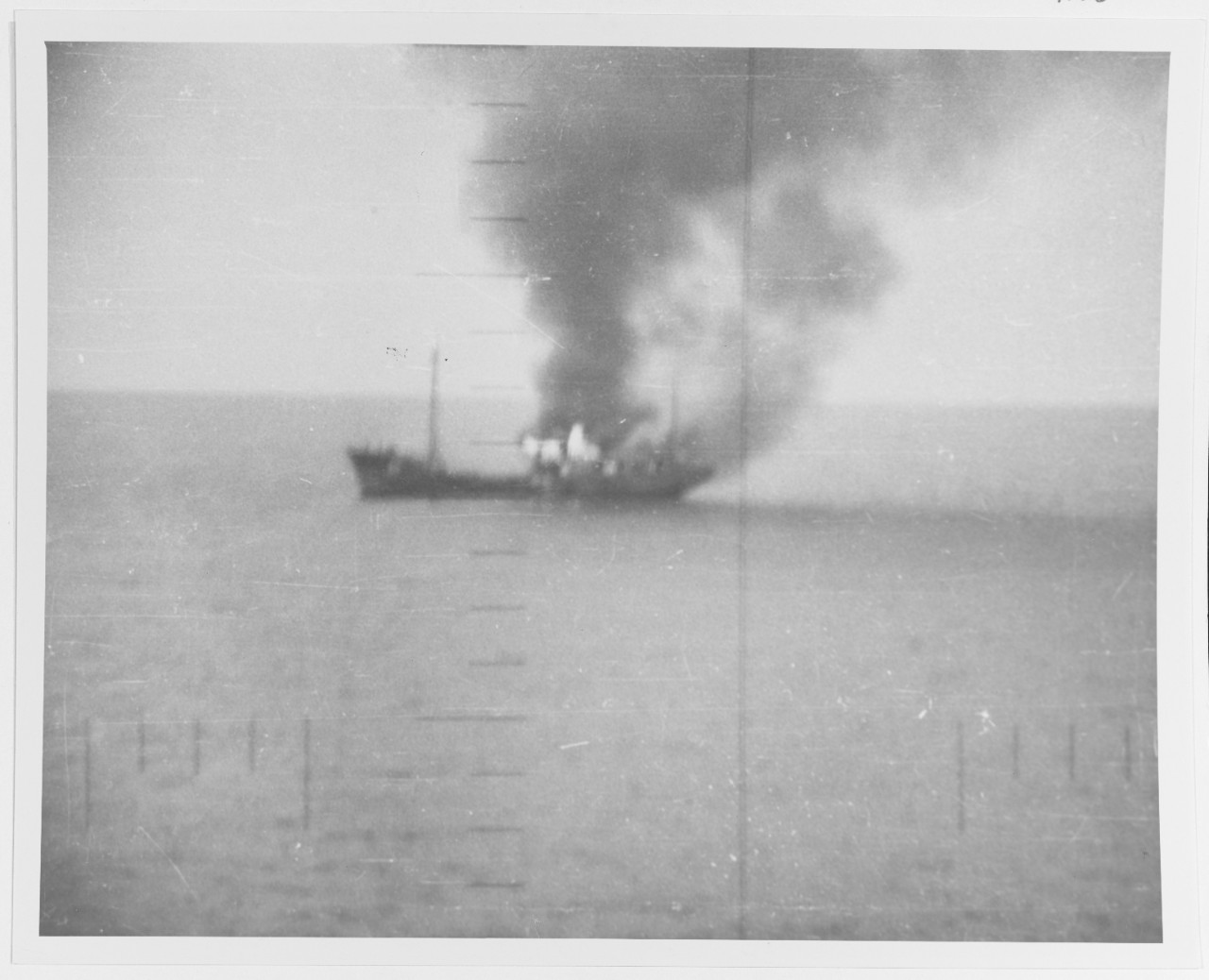 Japanese ship attacked by USS Silversides, 14 Oct 1942. Photo 80-G-12899, taken through periscope. Original caption from web page: Japanese picket vessel attacked by SILVERSIDES 14 October 1942. Periscope photo.